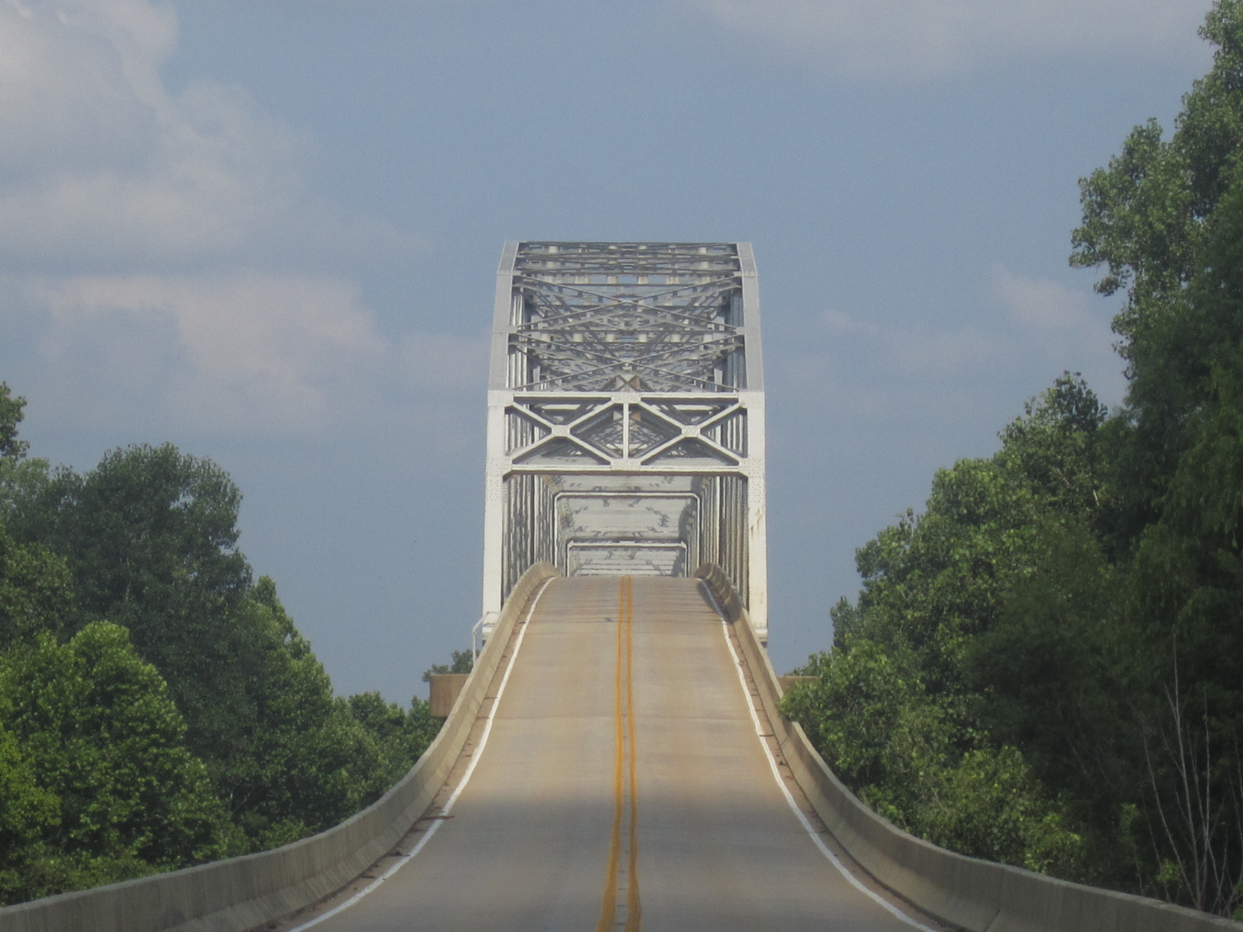 I took photo of bridge atop Red River on Bossier/Caddo Parish line on June 9, 2012, with Canon camera.Billy Hathorn (talk) 02:51, 28 June 2012 (UTC)